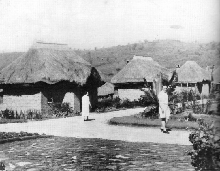 Butembo hotel in which every guest stays in their own cottage